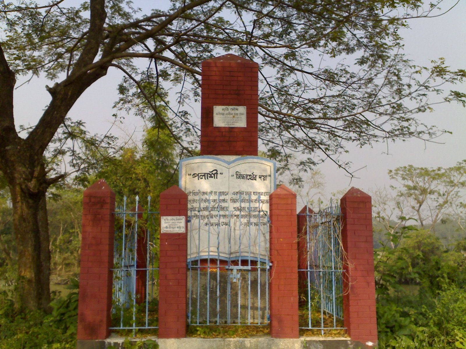 Grave of poet Nabinchandra Sen.